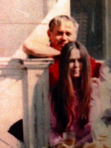 Painter Karl Priebe and Political Activist Nancy Berghaus